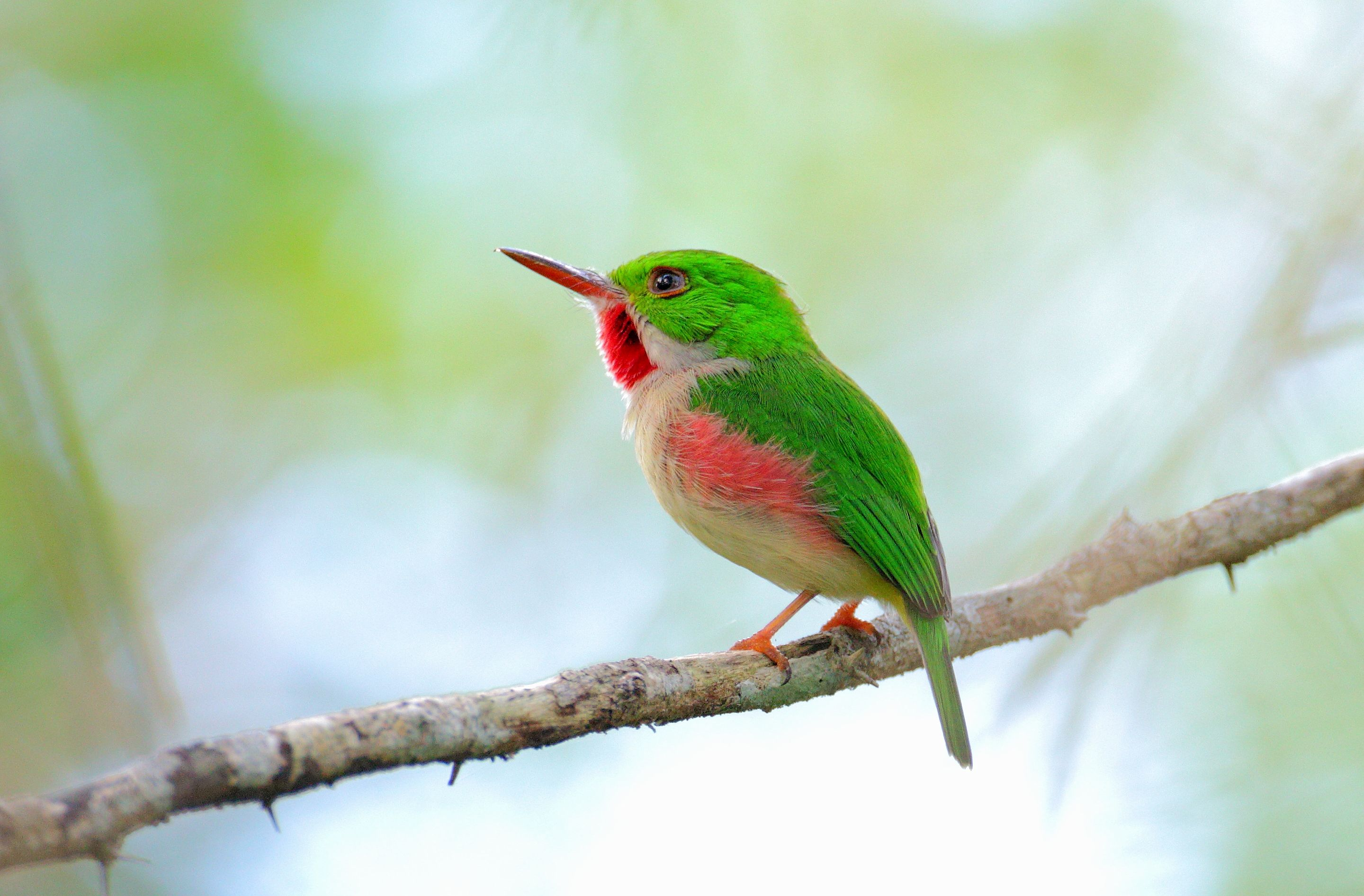 Broad-billed Tody Todus subulatus. Dominican Republic, near La Romana.